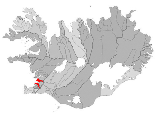 Based on Municipalities of Iceland.png.